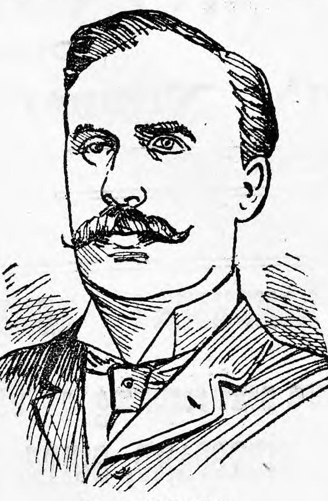 D. C. Cummings, Chair of the Trades Union Congress in 1906